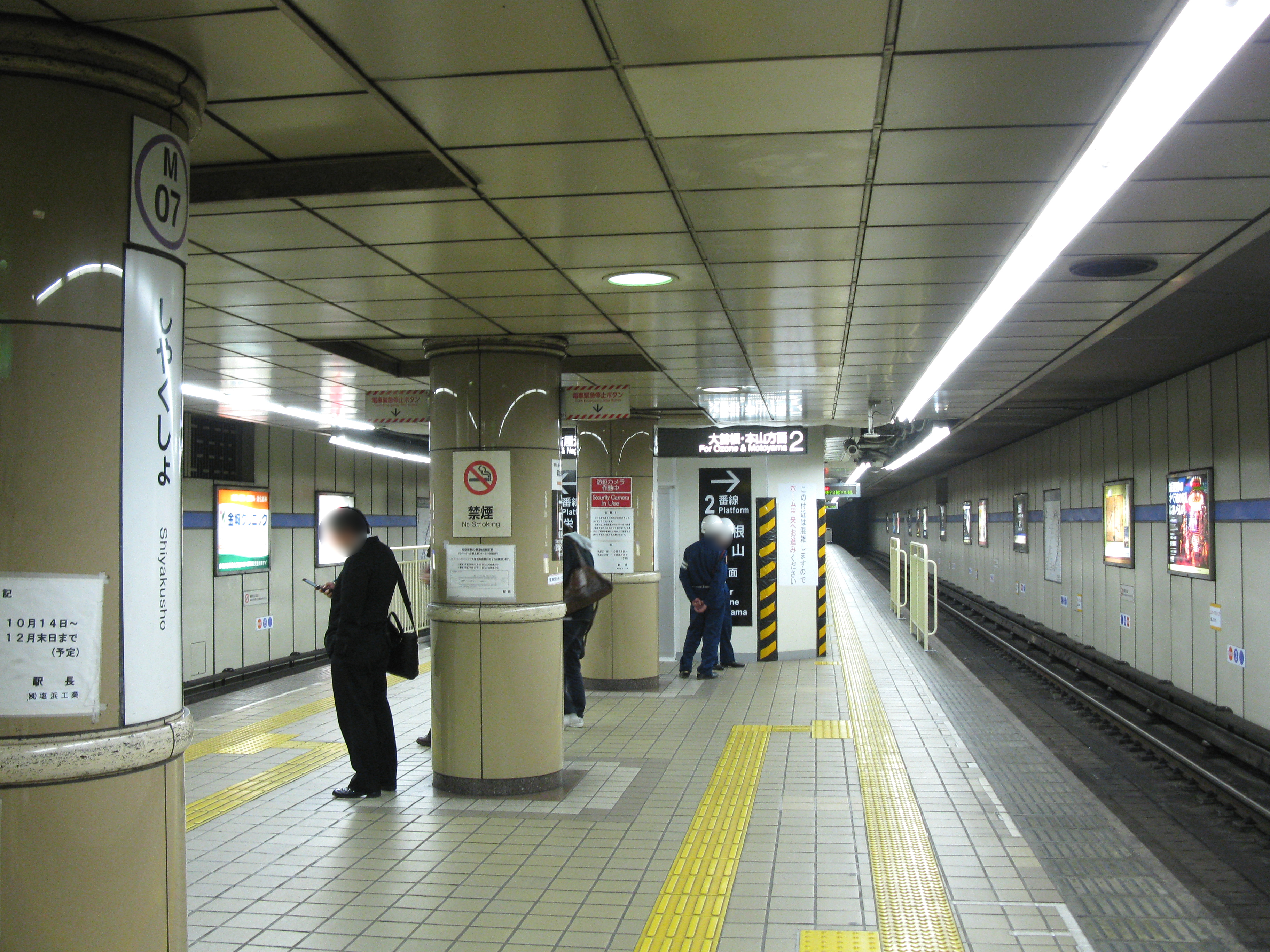 Shiyakusho(City Hall) Station platform (Nagoya Municipal Subway Meijō Line)